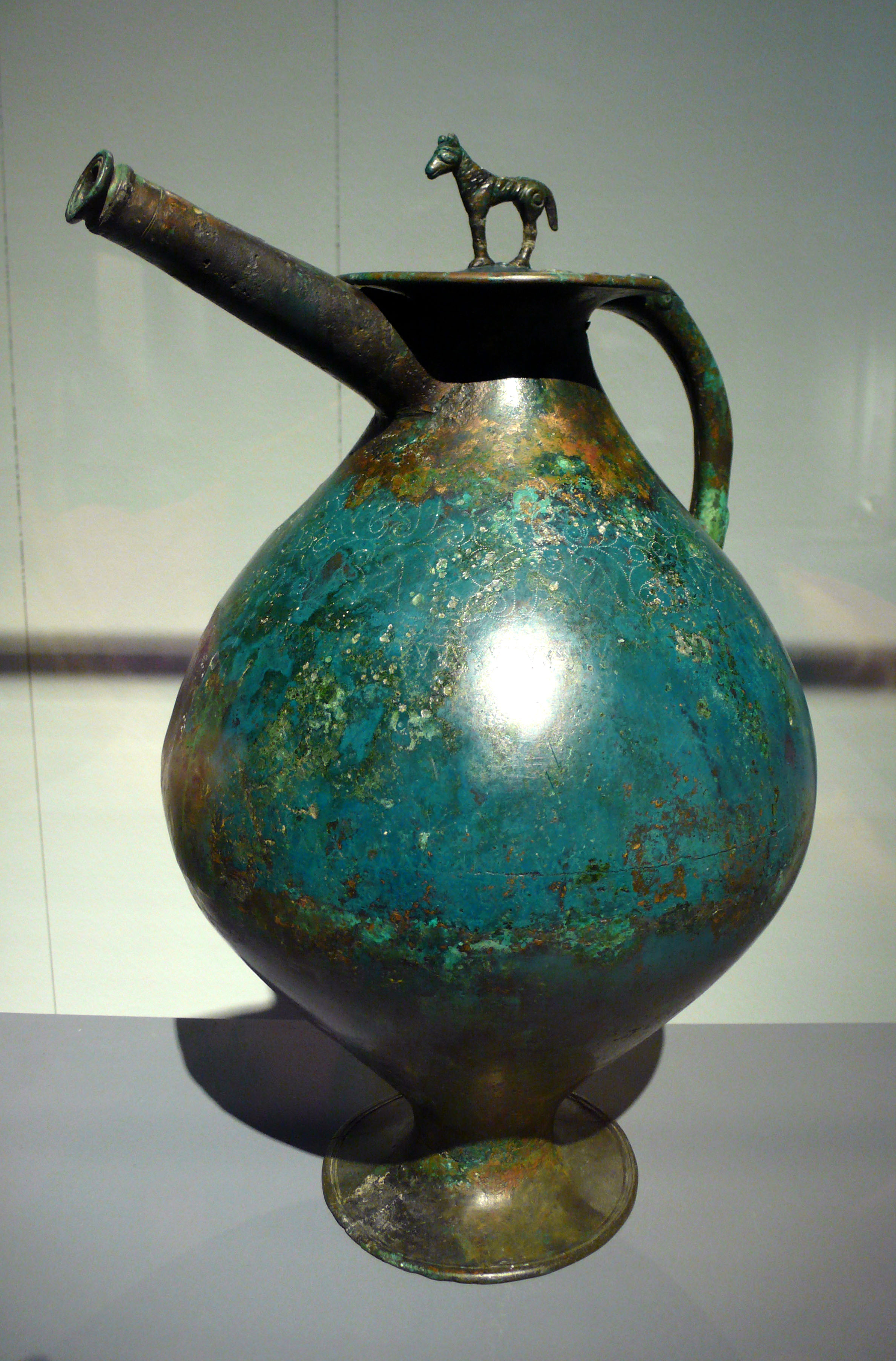 Waldealgesheim, Germany. About 320 BC This flagon had been a heirloom before placing in the grave. Its surface were decorated in a somewhat earlier style. The zone consisting of regular arrangements of individual motifs were characteristic of this early style. Kunst der Kelten, Historisches Museum Bern. Art of the Celts, Historic Museum of Bern.